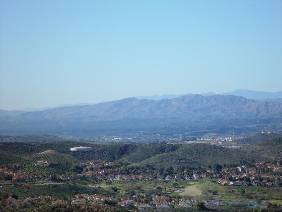 Simi Valley Scenic, with the Topatopa Mountains in backround.